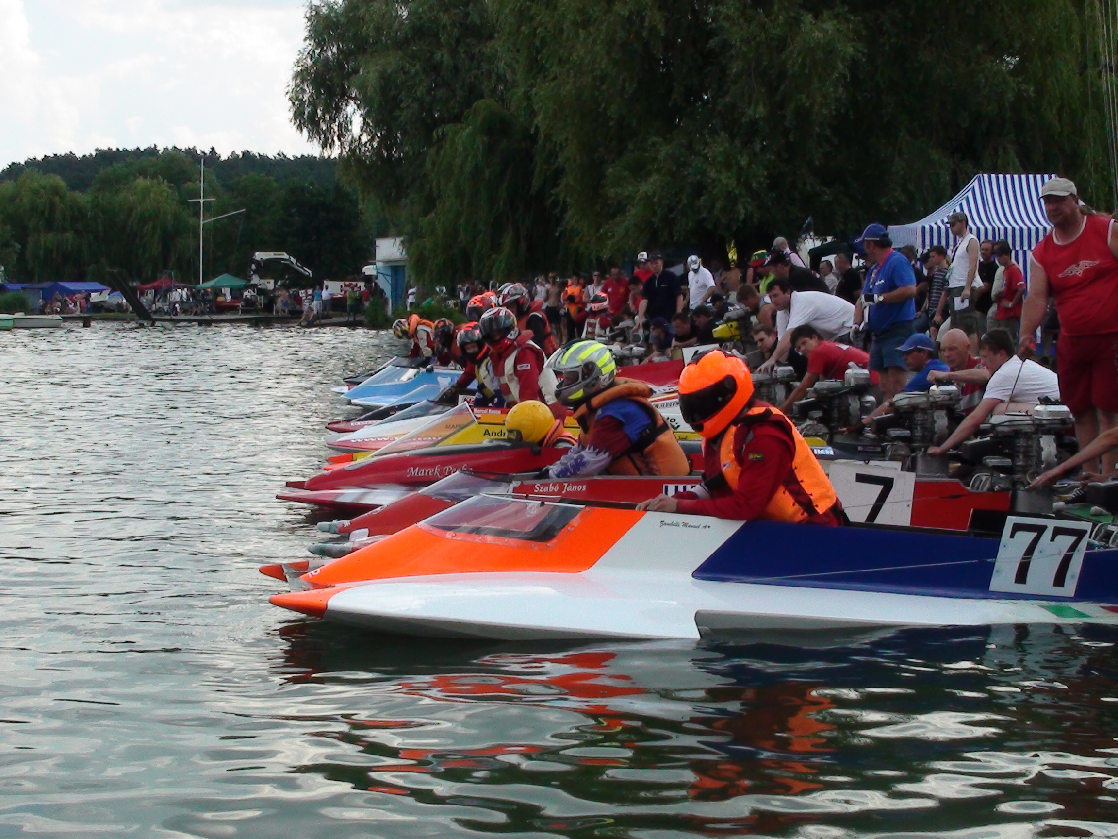 Motorowodne Mistrzostwa Świata na Jeziorze Miejskim w Chodzieży w 2009 roku.